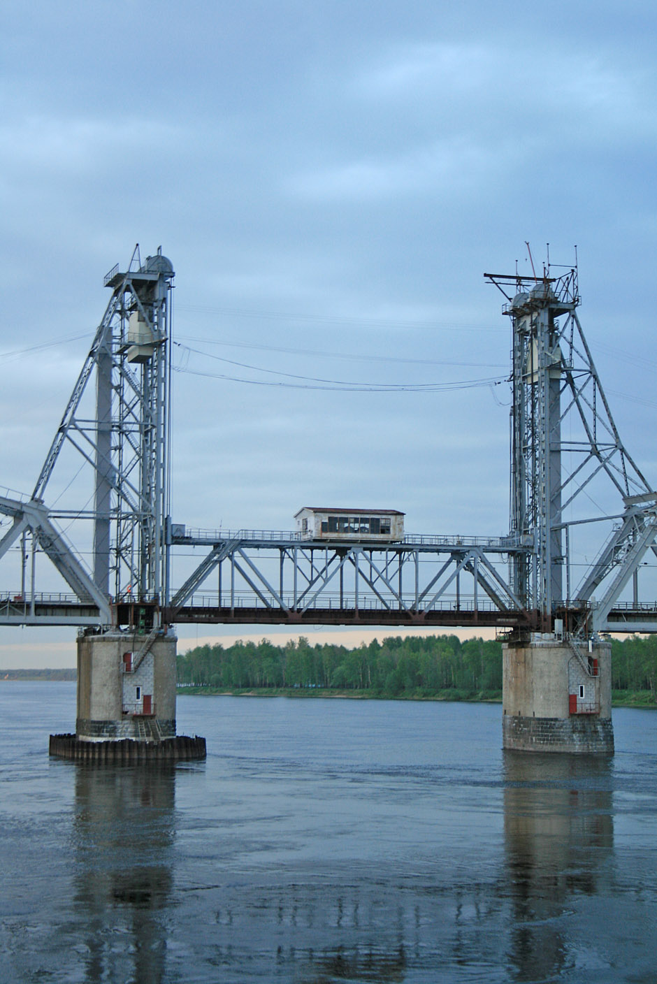 Kuzminsky bridge across Neva.